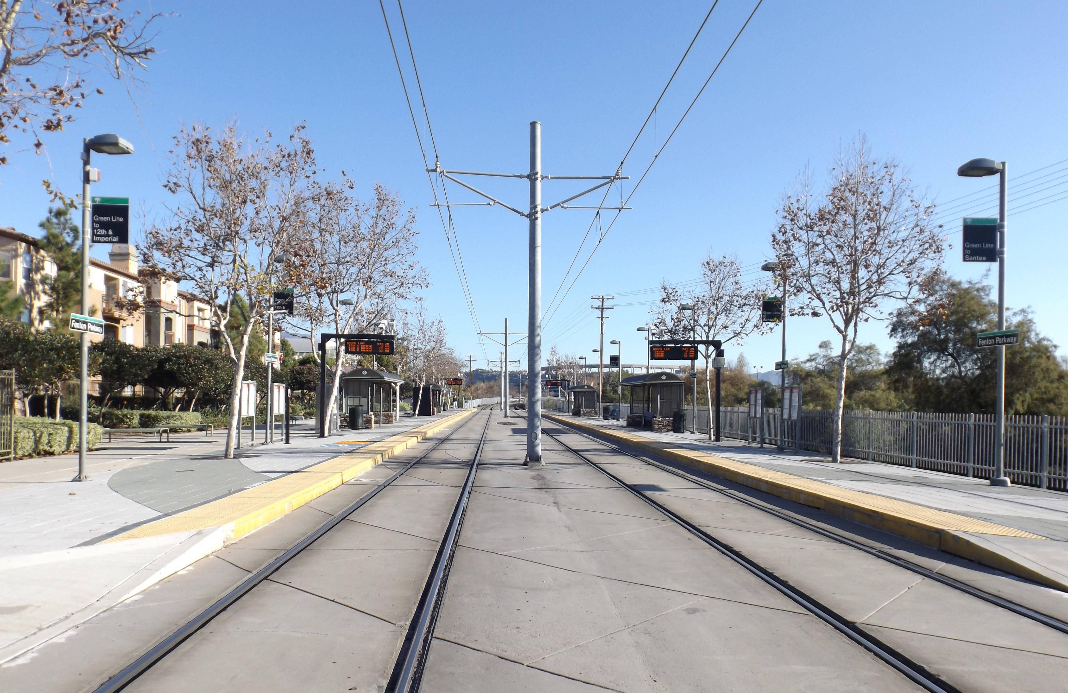 San Diego Trolley system at the Fenton Parkway station in Mission Valley, San Diego, California, USA. Looking east on a very quiet morning; Qualcomm Stadium is visible in the background.